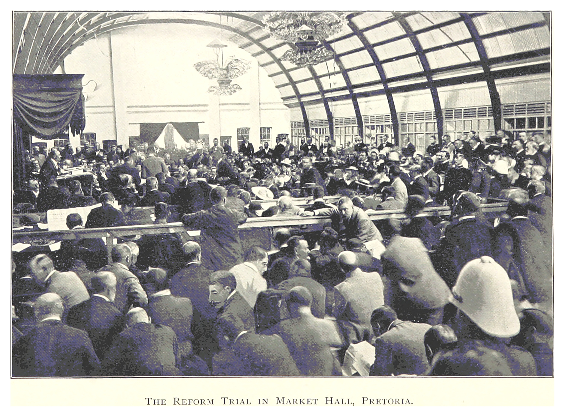 The Reform Committee[1] leaders were Lionel Phillips, Colonel F.W. Rhodes, George Farrar and J.H. Hammond. The remaining 60 defendants were J.P. FitzPatrick, S.W. Jameson, G. Richards, J.L. Williams, G. Sandilands, F. Spencer, R.A. Bettington, J.G. Auret, E.P. Solomon, J.W. Leonard, W.H.S. Bell, W.E. Hudson, D.F. Gilfillan, C.H. Mullins, E.O. Hutchinson, W. van Hulsteyn, A. Woolls-Sampson, H.C. Hull, Alf. Brown, C.L. Andersson, M. Langermann, W. Hosken, W. St. John Carr, H.F. Strange, C. Garland, Fred Gray, A. Mackie Niven, Dr. W.T.F. Davies, Dr. R.P. Mitchell, Dr. Hans Sauer, Dr. A.P. Hillier, Dr. D.P. Duirs, Dr. W. Brodie, H.J. King, A. Bailey, Sir Drummond Dunbar, H.E. Becher, F. Mosenthal, H.A. Rogers, C. Butters, Walter D. Davies, H. Bettelheim, F.R. Lingham, A.L. Lawley, W.B. Head, V.M. Clement, W. Goddard, J.J. Lace, C.A. Tremeer, R.G. Fricker, J.M. Buckland, J. Donaldson, F.H. Hamilton, P. du Bois, H.B. Marshall, S.B. Joel, A.R. Goldring, J.A. Roger, Thomas Mein, J.S. Curtis[2]